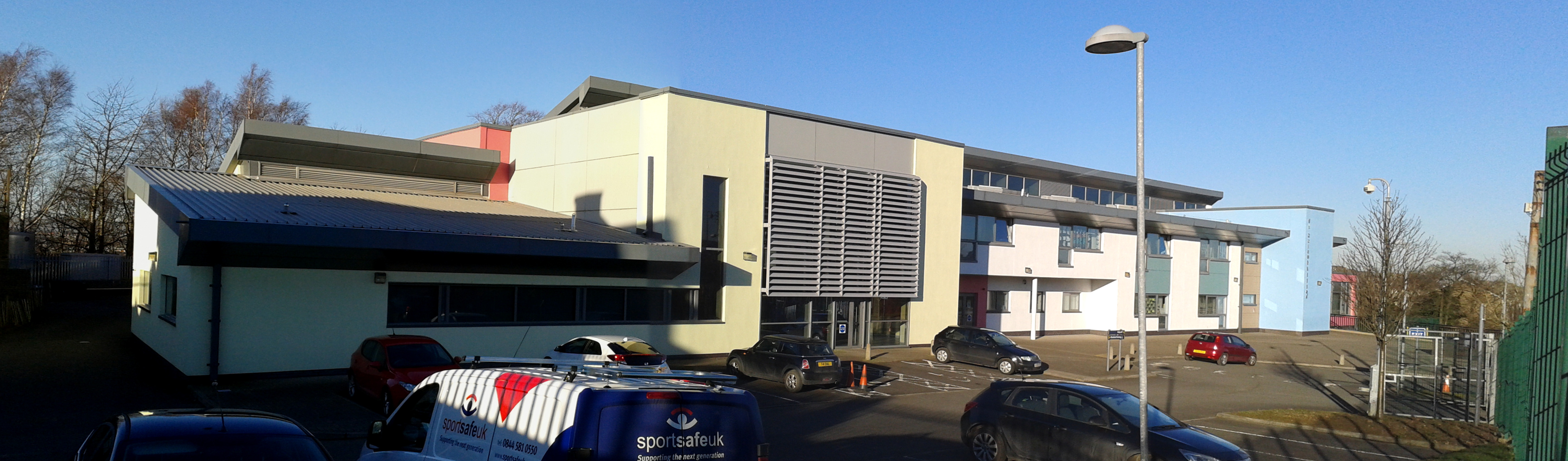 Panorama of St. Columbkille’s Primary School, Clincarthill Road, Rutherglen, G73 2LG